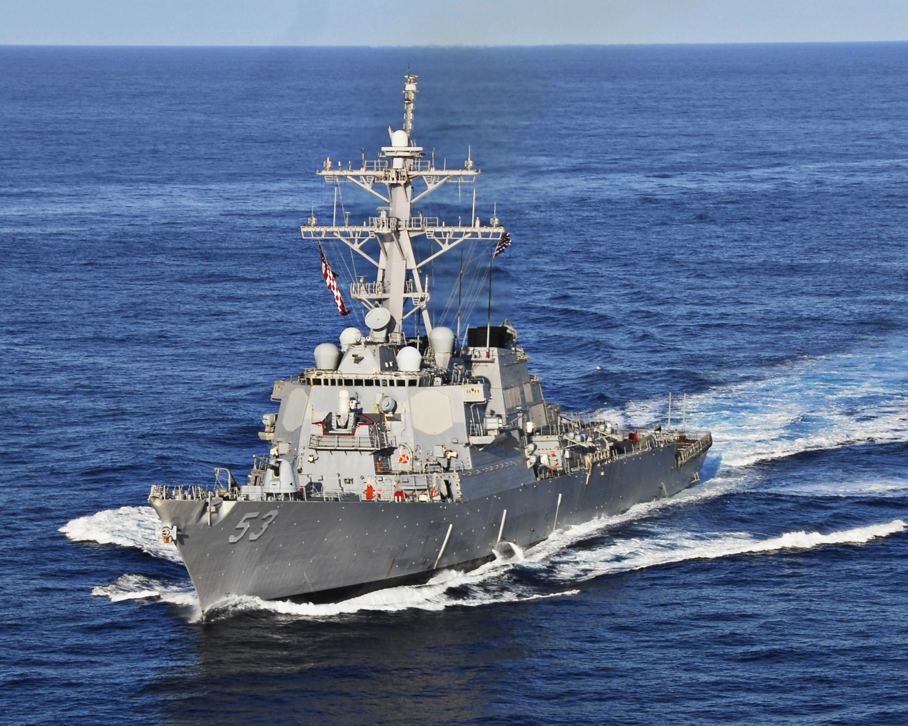 080316-N-5484G-077 EAST CHINA SEA (March 16, 2008) The guided-missile destroyer USS John Paul Jones (DDG 53) steams into position during an Expeditionary Strike Force (ESF) exercise. The Nimitz Carrier Strike Group (CSG) recently participated in an ESF with the Essex (LHD 2) Expeditionary Strike Group (ESG). The ESF exercise was designed to test the ability of the Strike Groups to plan and conduct multi-task force operations across a broad spectrum of naval disciplines and to refresh skills in completing complex missions that require capabilities that are broader in scope than the individual Strike Groups can provide alone. U.S. Navy photo by Mass Communication Specialist 3rd Class Joseph Pol Sebastian Gocong (Released)